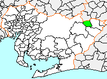 Modified by me from Wikipedia's file